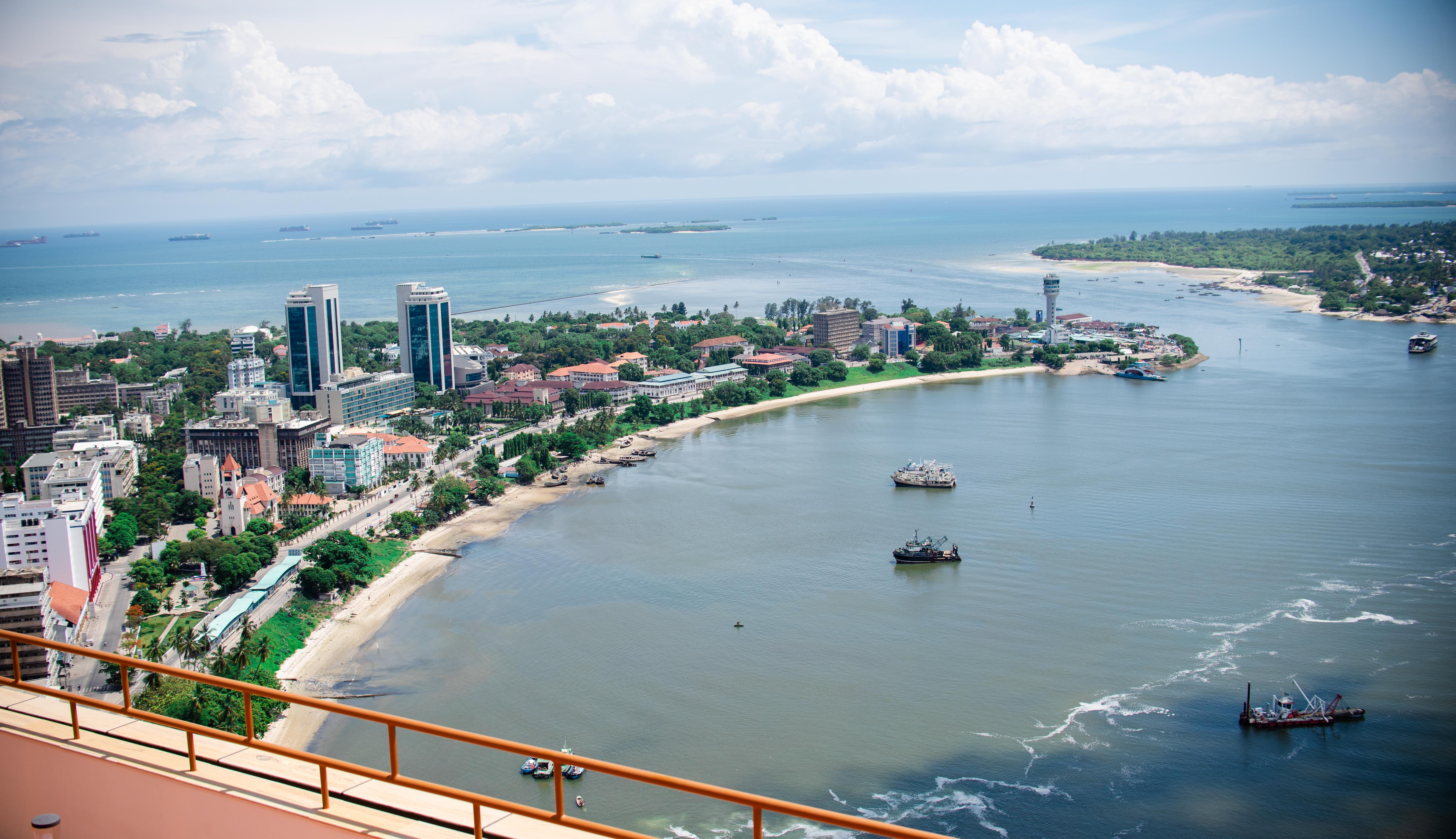 This is an image with the theme "Africa on the Move or Transport" from: Tanzania